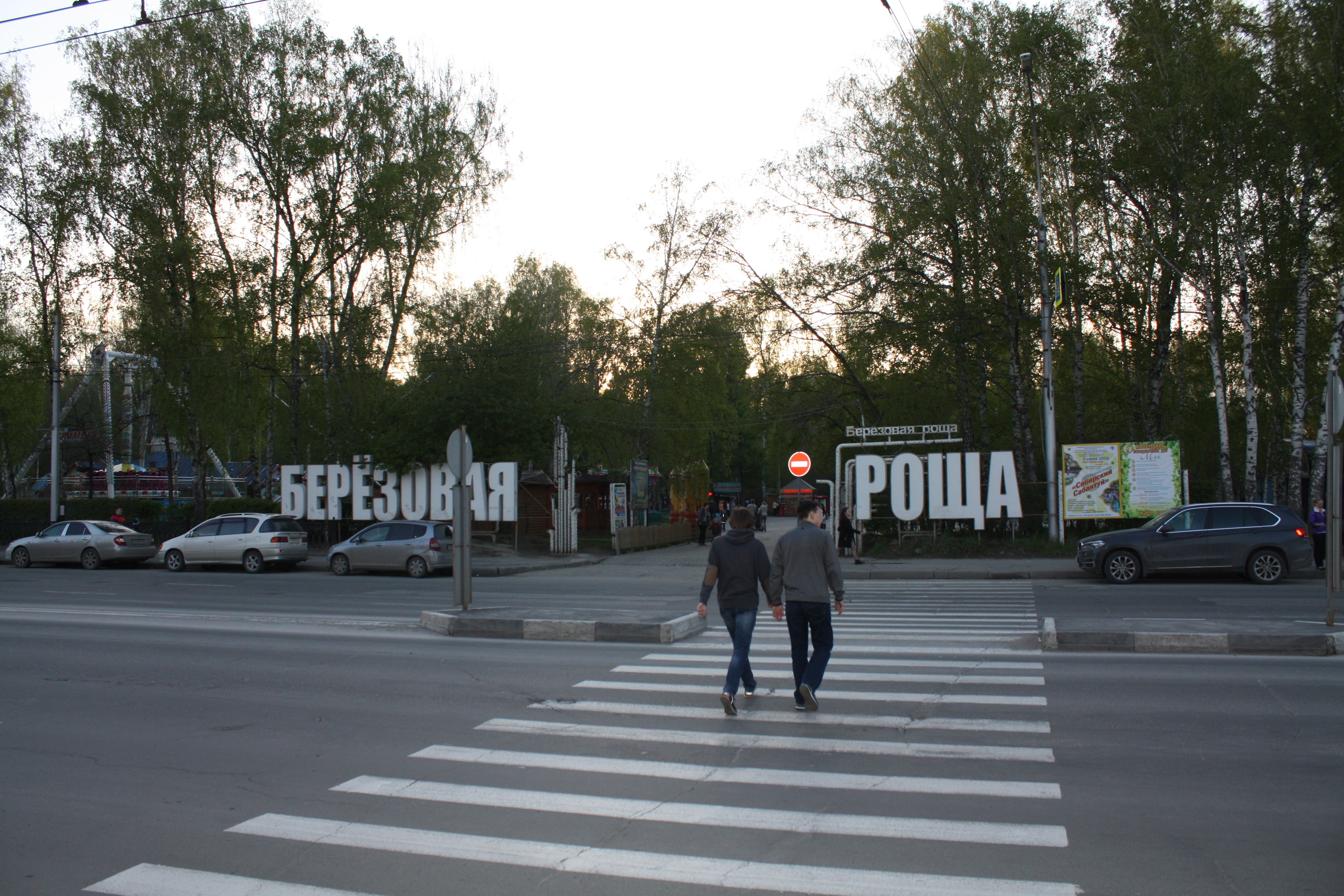 Dzerzhinsky Prospekt, Novosibirsk, Russia.